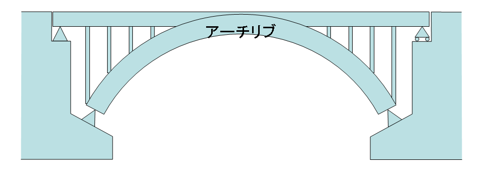 An illustration of an arch bridge with Japanese characters